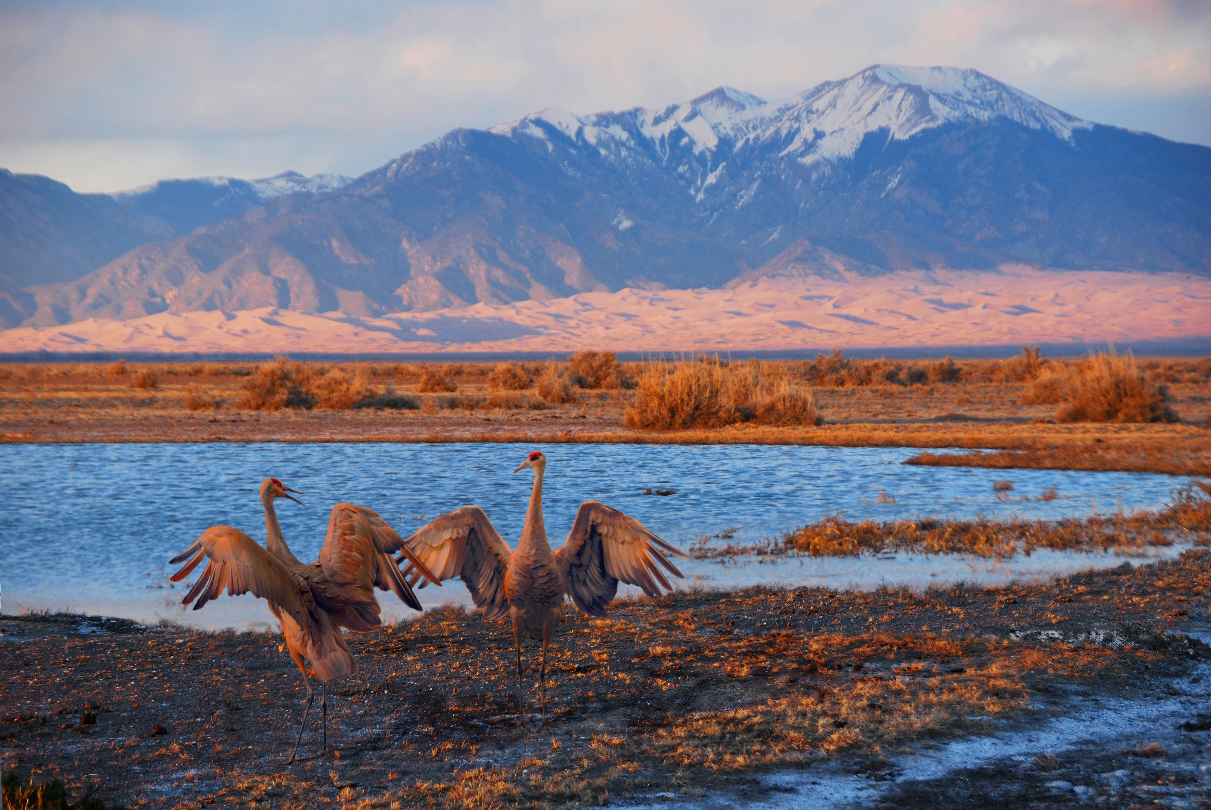 NPS/Patrick Myers